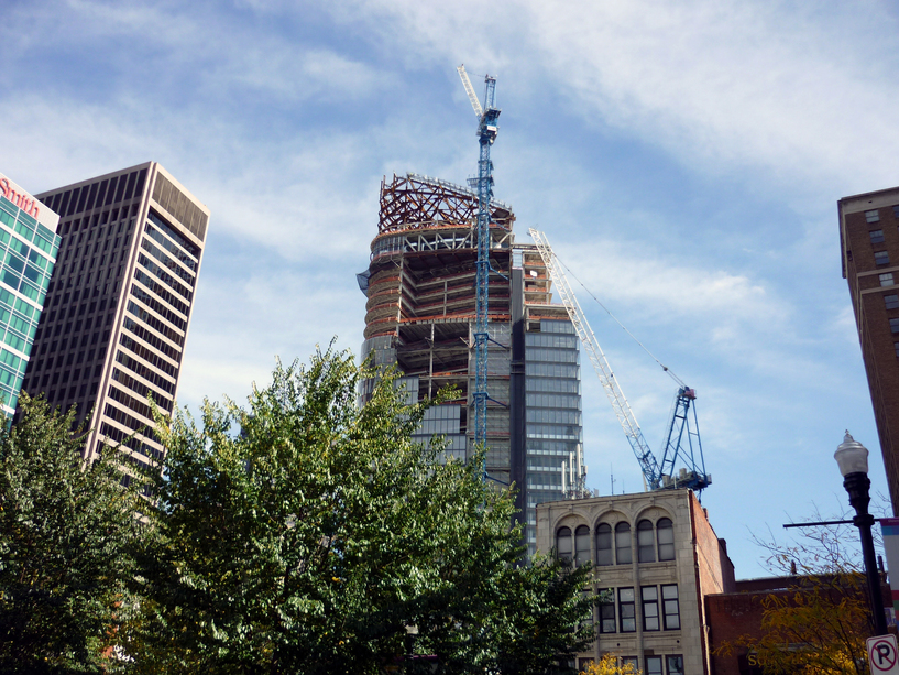 The PNC Tower in Pittsburgh.